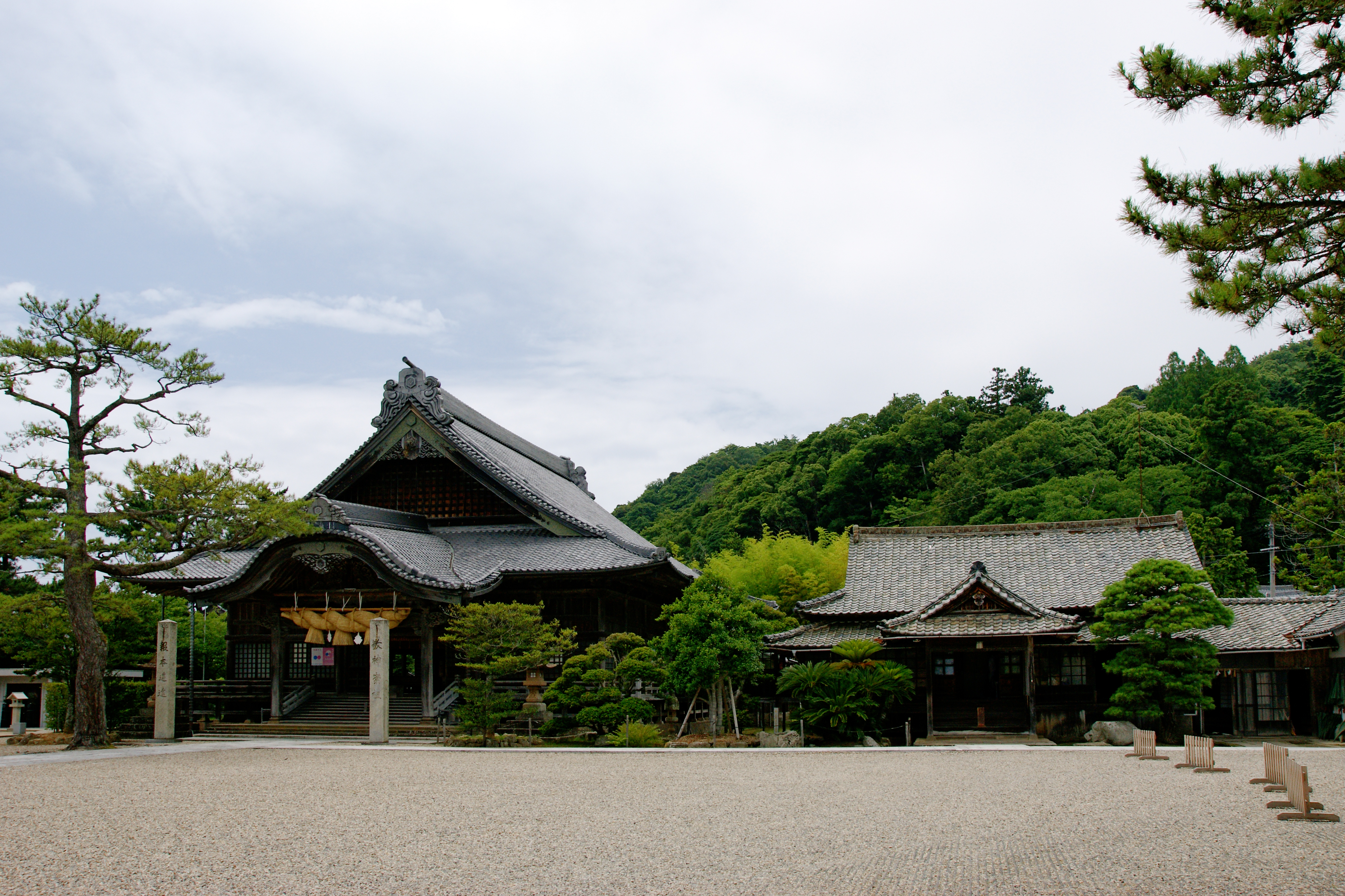 Izumo-ooyashirokyo Soreisha, Izumo, Shimane prefecture, Japan